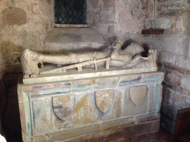 Photograph of the Effigy of John Wyard in St Laurence Parish Church, Meriden, West Mids.